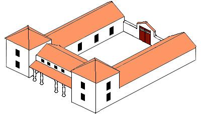 Schematic image of a roman Villa Rustica